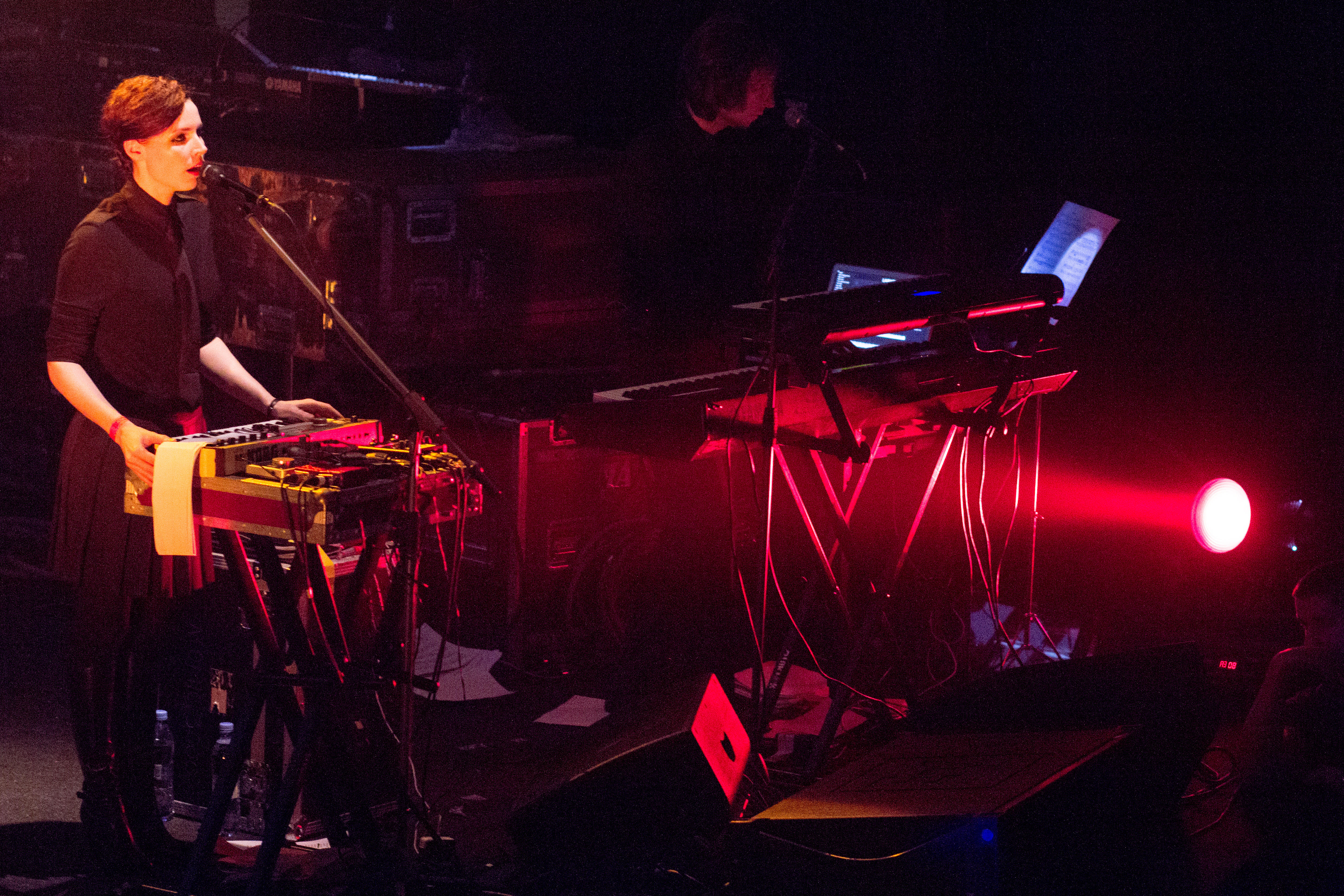 Canon 85mm f/1.8 USM, f/3.5